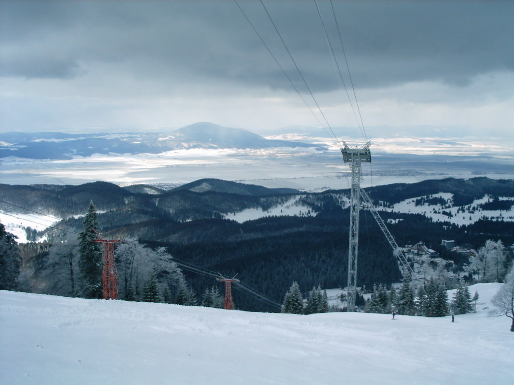 Picture of part of the Burzenland in Romania